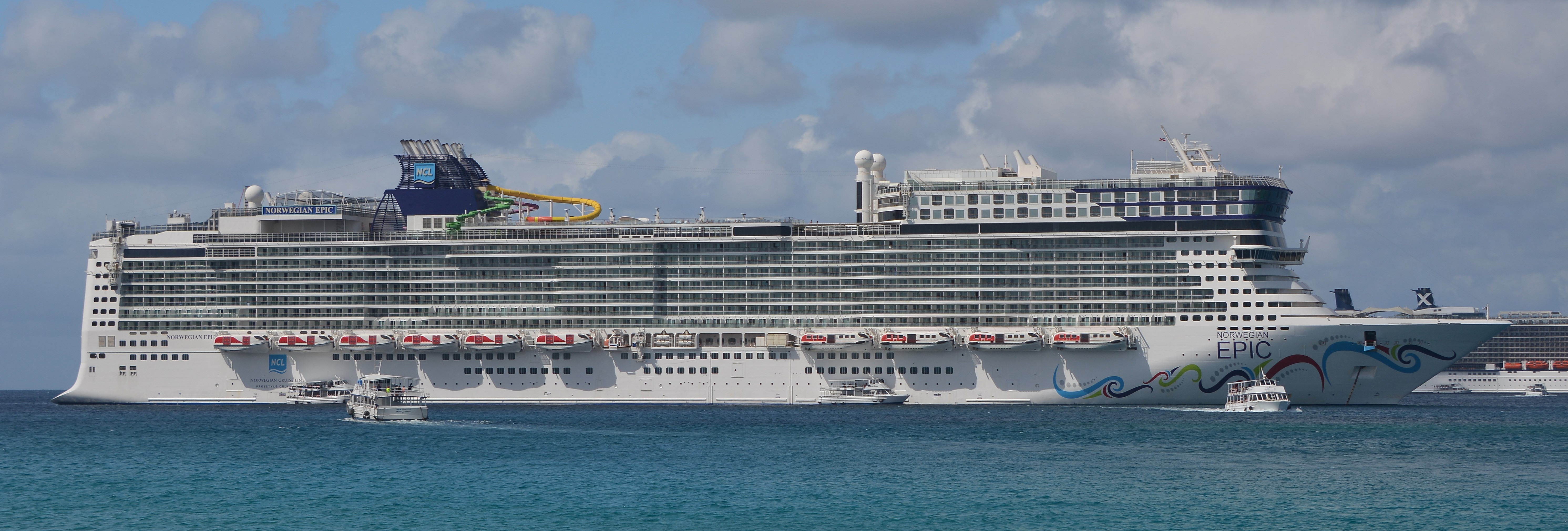 Norwegian Epic on 22/11/2016 in Georgetown, Cayman Islands.